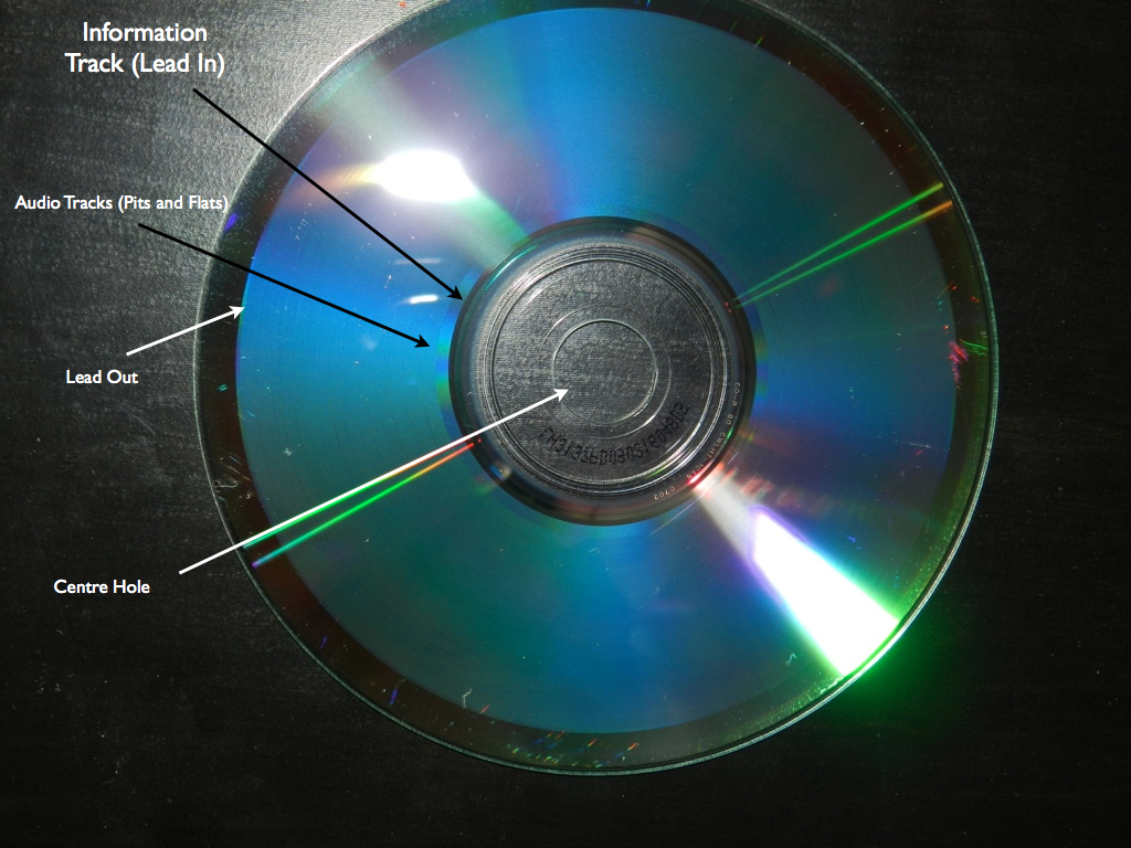 CD Diagram